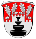 Coat of Arms of Friedewald